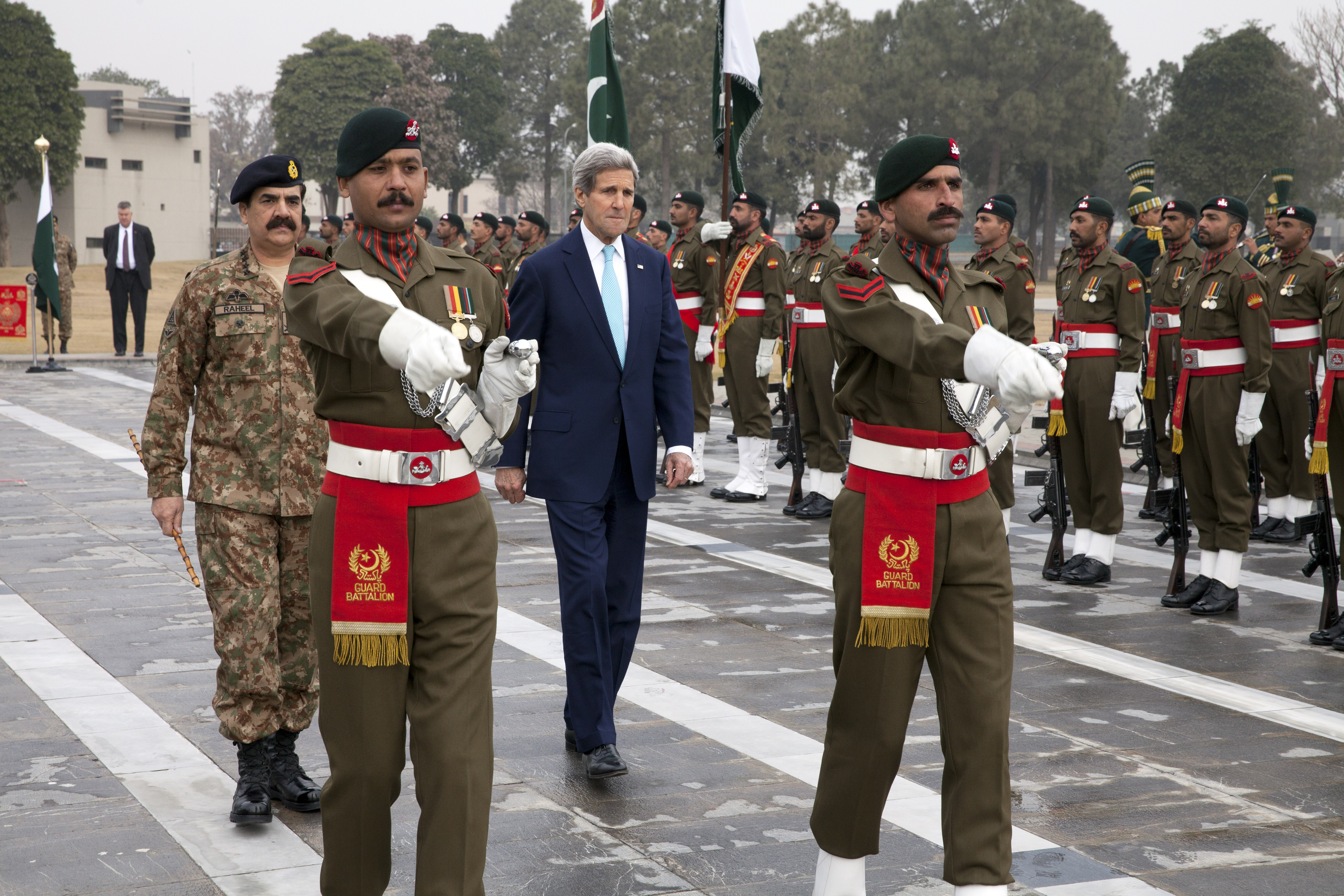 U.S. Secretary of State John Kerry, with Pakistani Chief of Army Staff Raheel Sharif, participates in a wreath laying ceremony at the General Headquarters (GHQ), the headquarters of Pakistan Army, in Rawalpindi, Pakistan, on January 13, 2015.